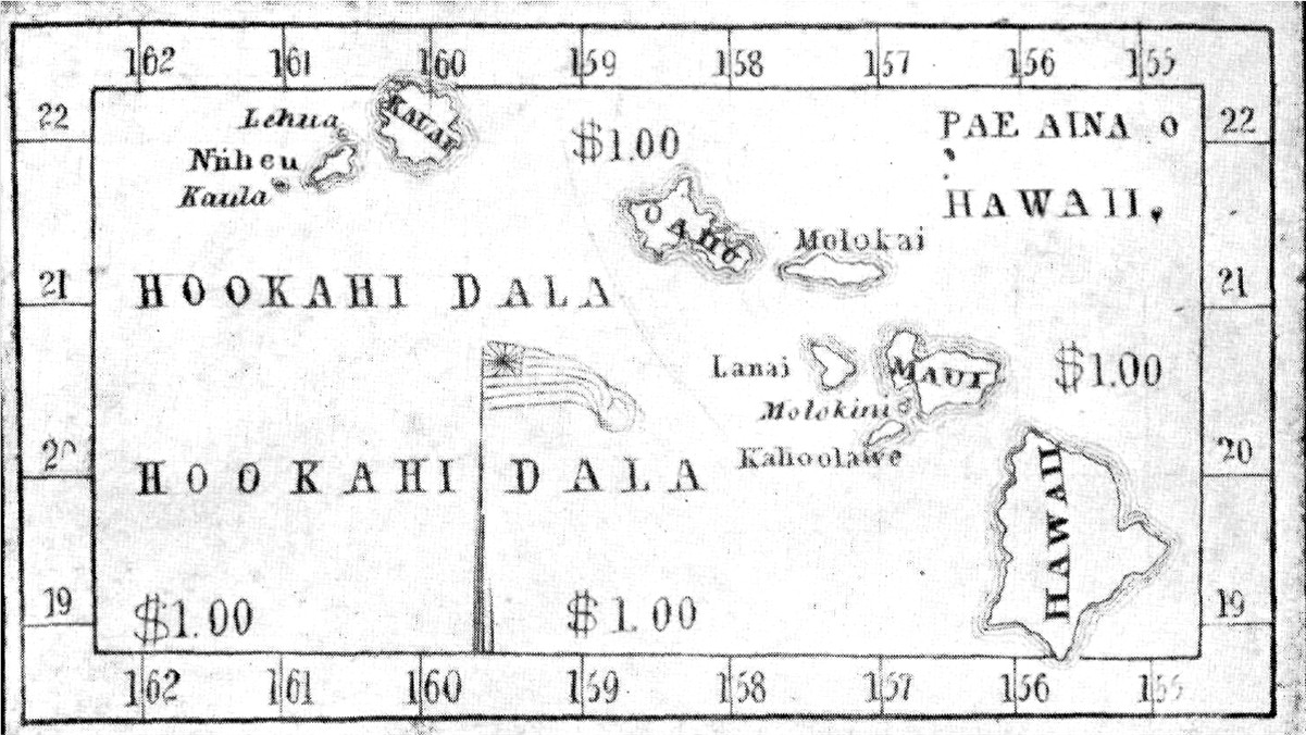 The first Hawaii currency was printed by students of Lahainaluna school, Maui, Hawaii starting in about 1843 under the direction of Rev. Lorrin Andrews. By 1844 a counterfeiter had been caught and expelled.